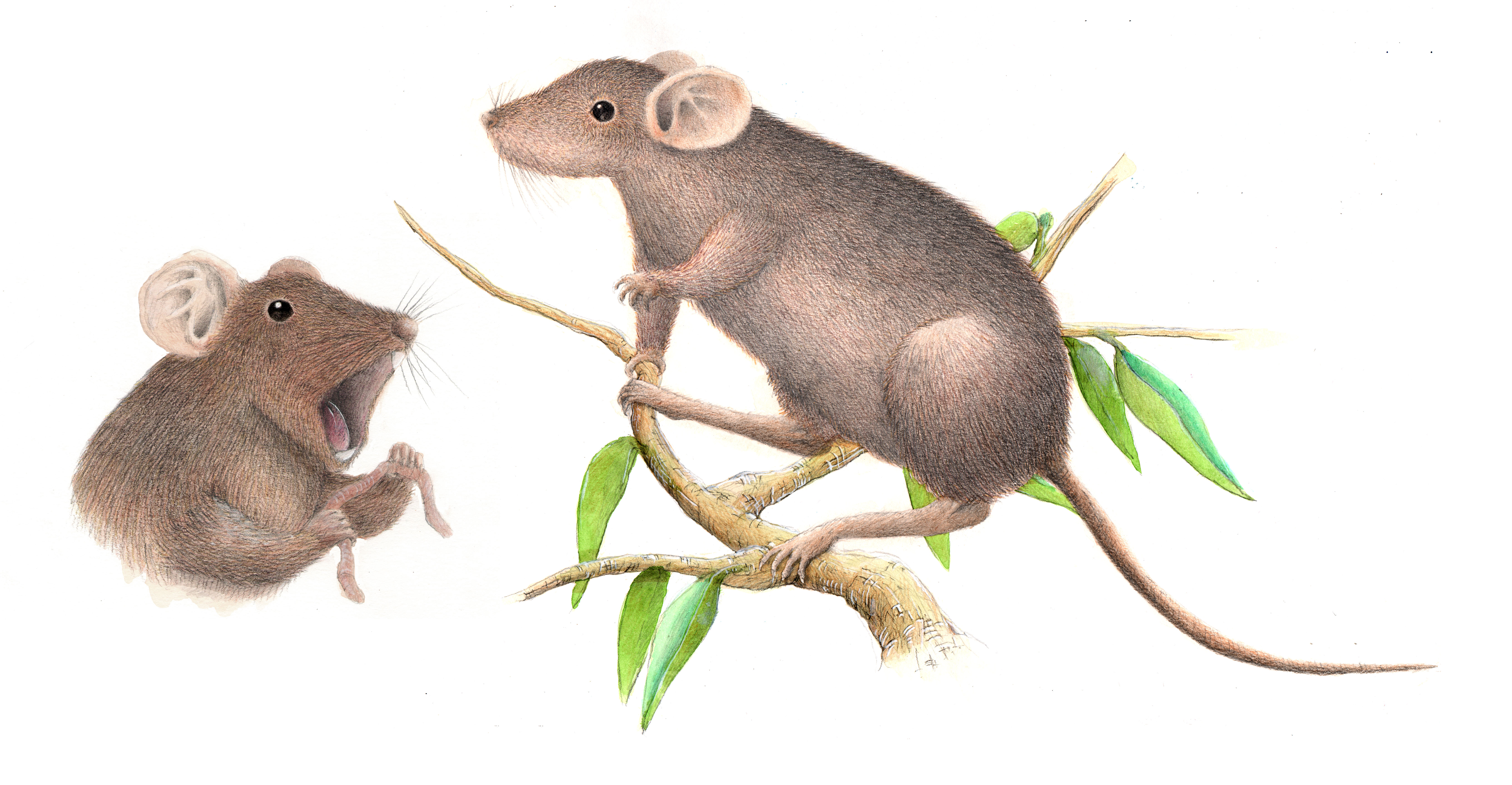 Scientific illustration of mammal Apomys gracilirostris, rodent that has only been seen in Mount Halcon, on the Philippine island of Mindoro. It's a big mouse with a soft fur and mostly dark brown color.It has long legs and tail as well as the snout, an unique feature of its kind. Illustration done with watercolor and colored pencils made with the advice of Alistair Ian Spearing Ortiz scientific translator. Sources: Ruedas, L. A. «Description of a new large-bodied species of Apomys Mearns, 1905 (Mammalia: Rodentia: Muridae) from Mindoro Island, Philippines This image was provided to Wikimedia Commons as a contribution from an Art&Design School thanks of a collaboration between EASD Pau Gargallo and Amical Wikimedia.